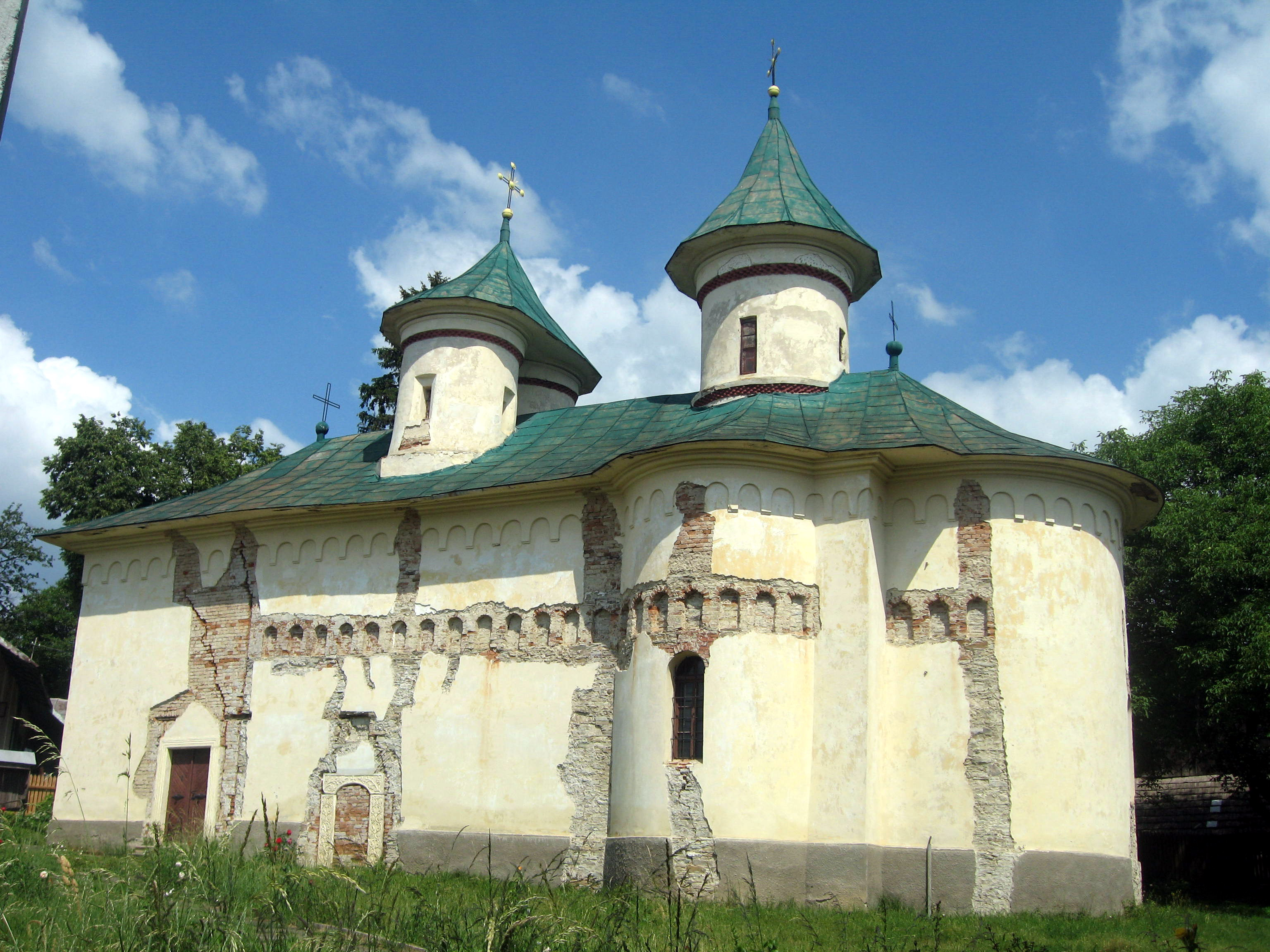 Ilişeşti Monastery, Suceava County, Romania